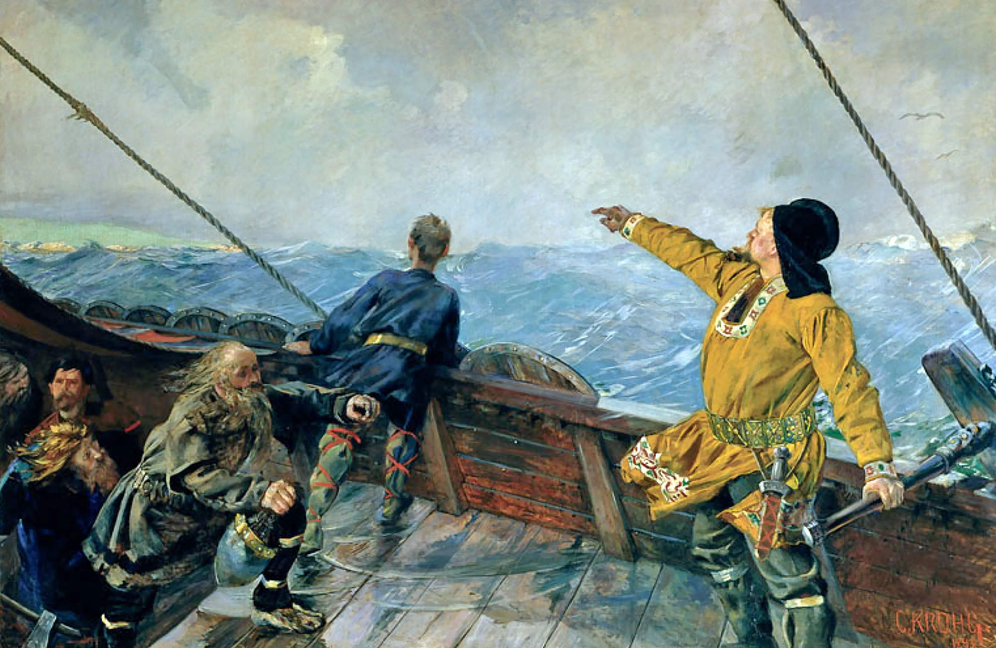 Leiv Eiriksson discovers North Americalabel QS:Len,"Leiv Eiriksson discovers North America"